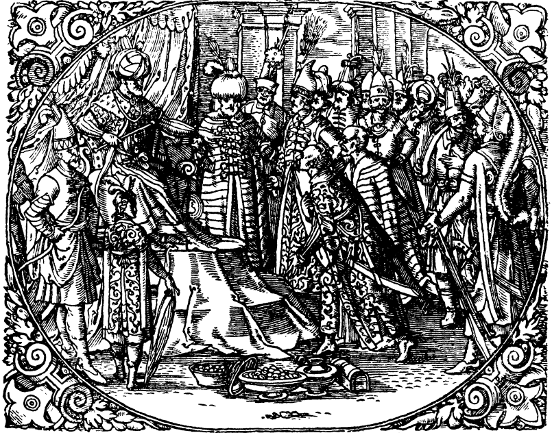 Ambassadors present gifts the Tsar of Muscovy